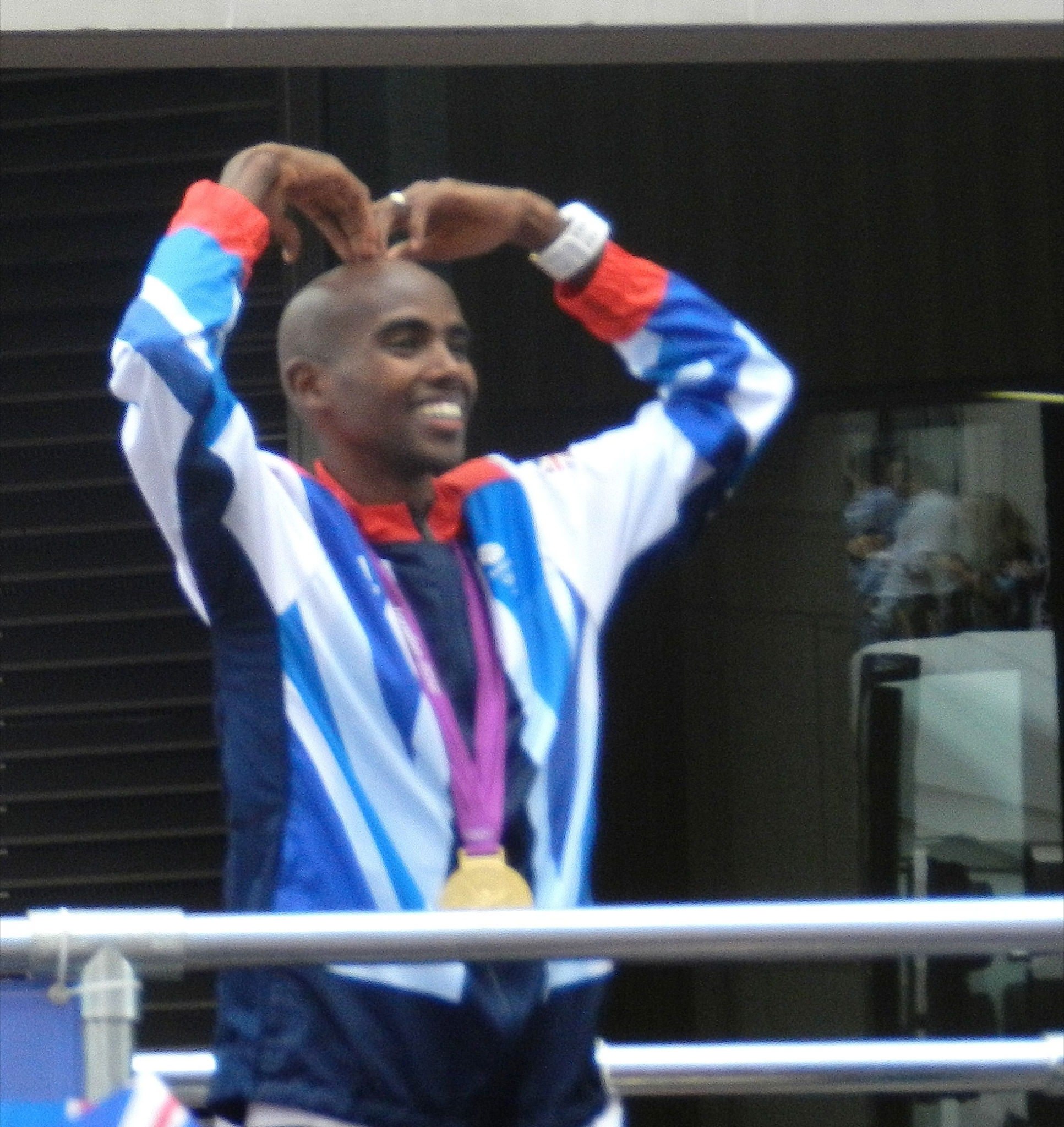 Mo Farah performing his signature "Mobot" move